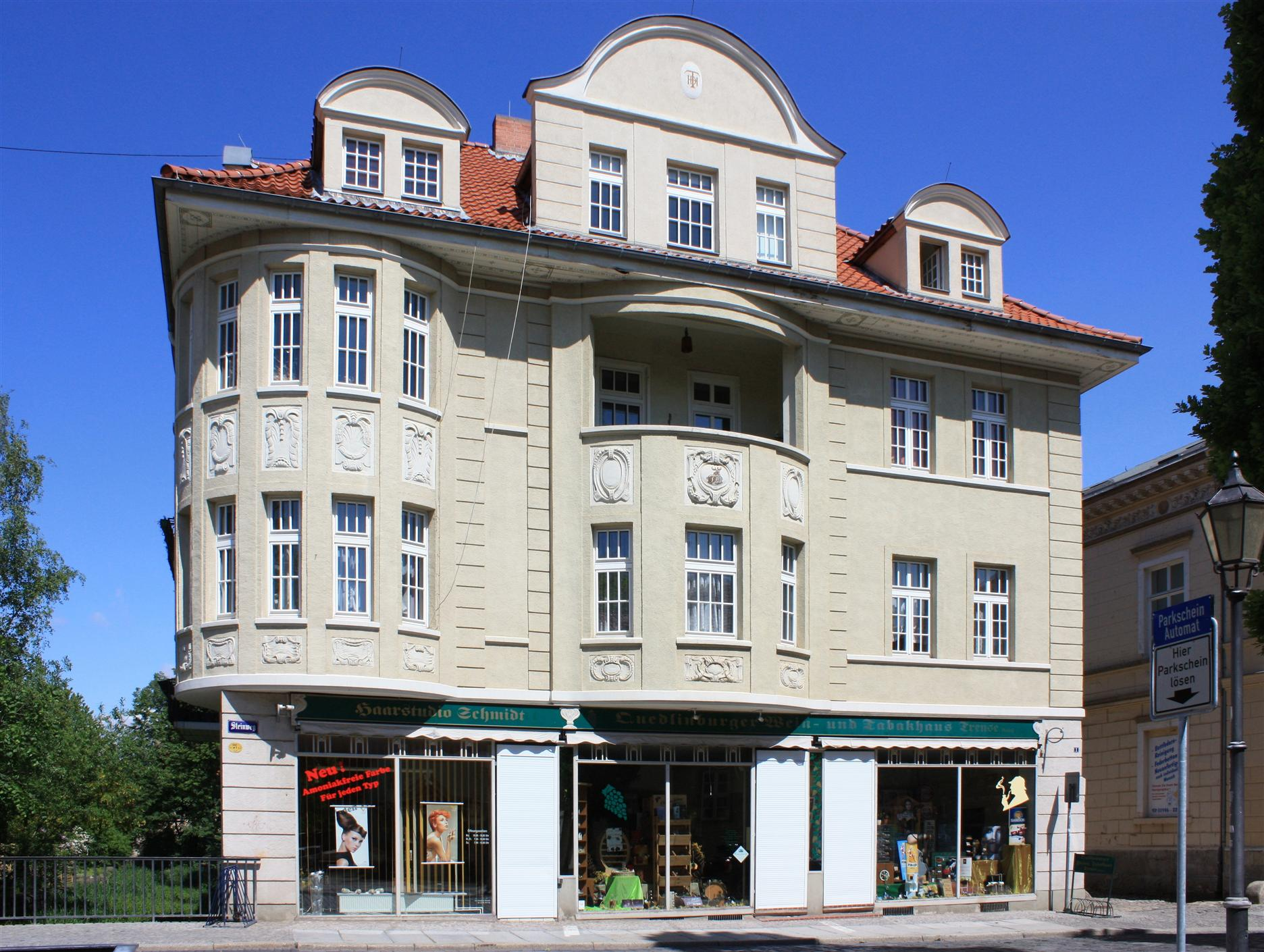 2=Building in Quedlinburg / Germany Steinweg 1